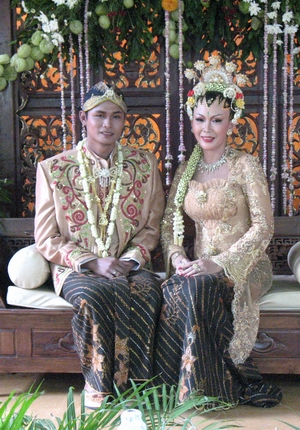 Traditional Javanese marriage costume